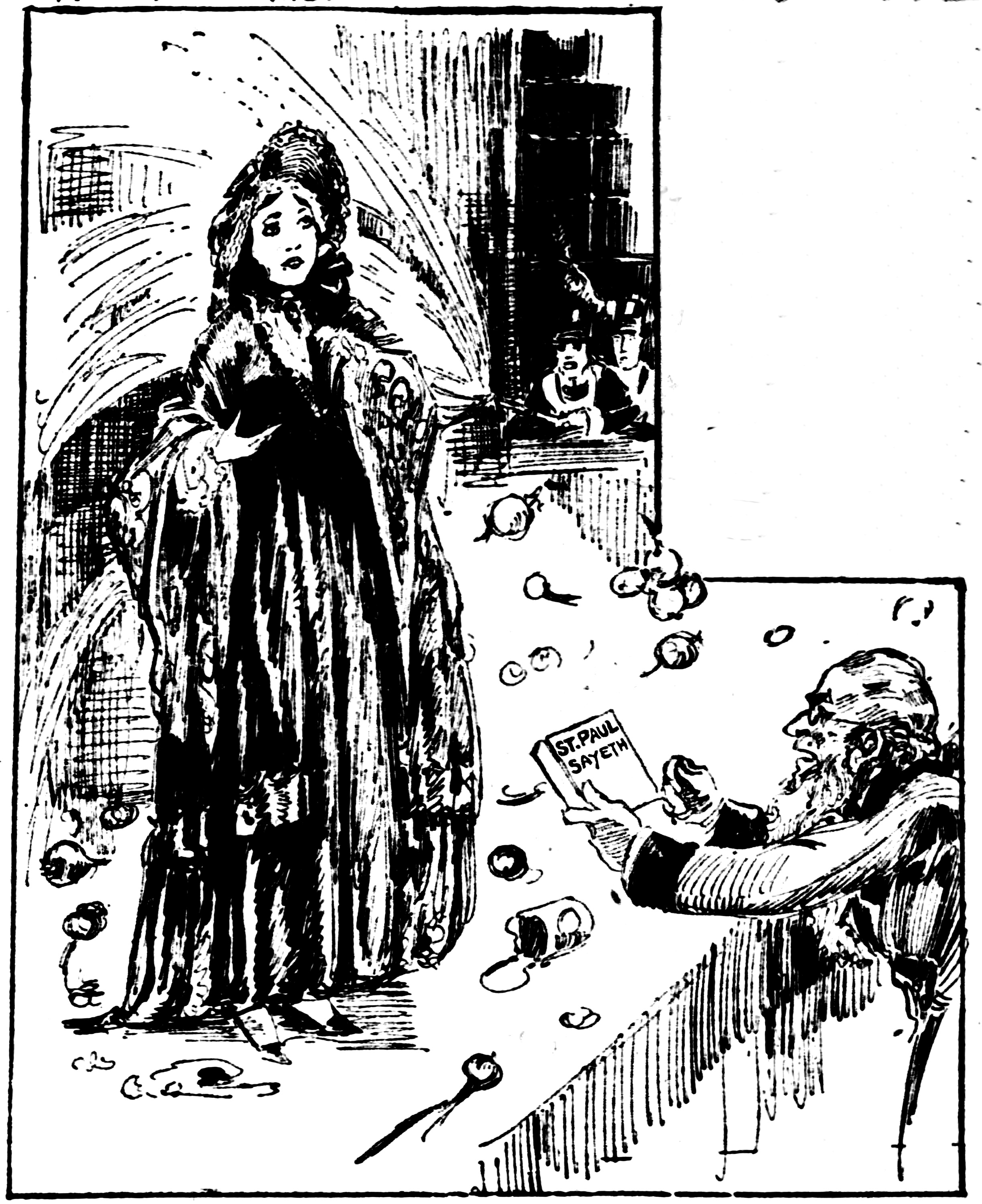 Fanciful drawing by Marguerite Martyn of Lucy Stone as a young lecturer being pelted with vegetables and other debris. Men train a water hose on her from the right, and a bearded man holds a book with the title "St. Paul Sayeth" on the cover.